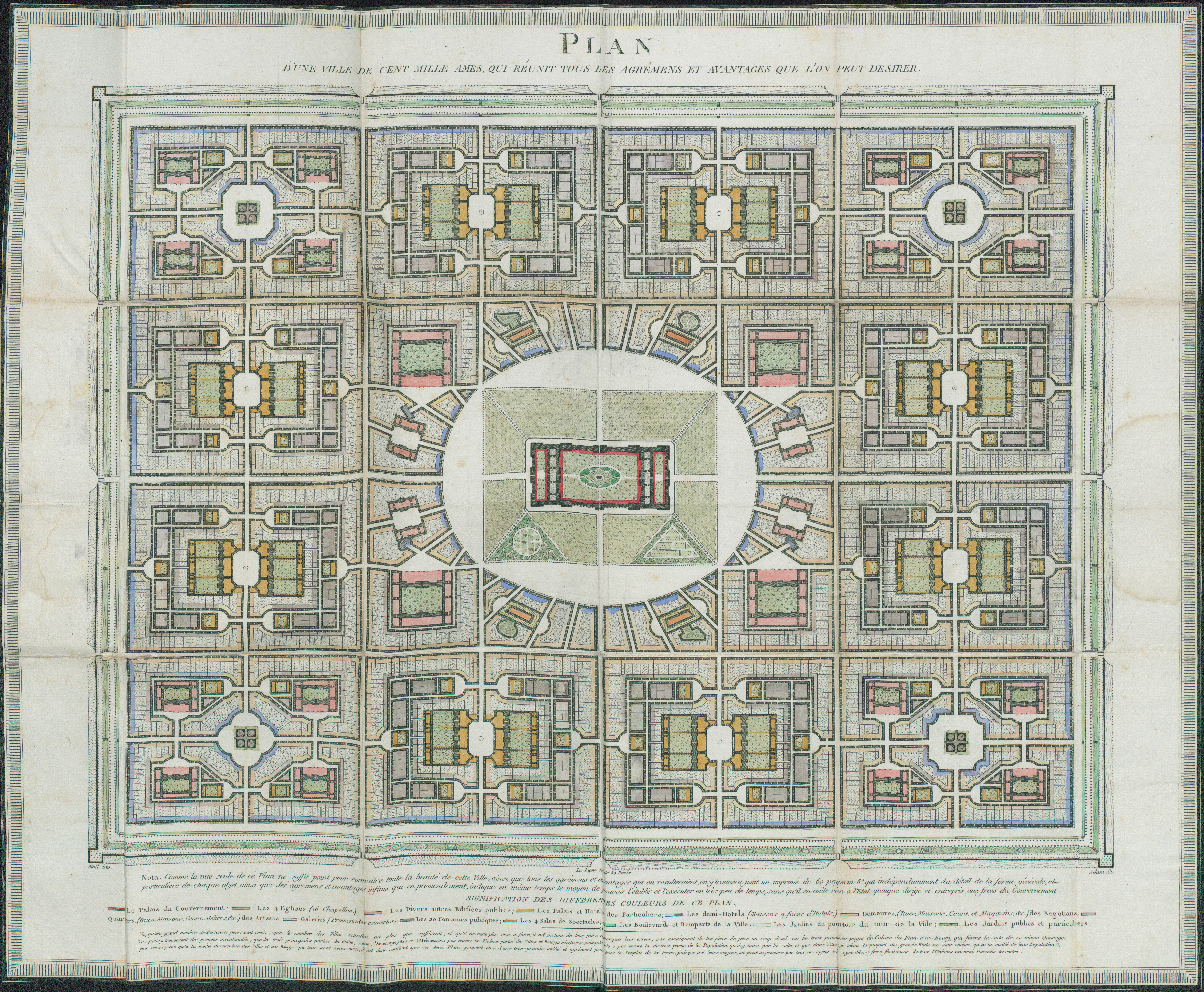 Plan of an ideal city of 100 000 inhabitants, from: Plan d'une ville de cent mille ames by Jean-Jacques Moll; Bienne 1801